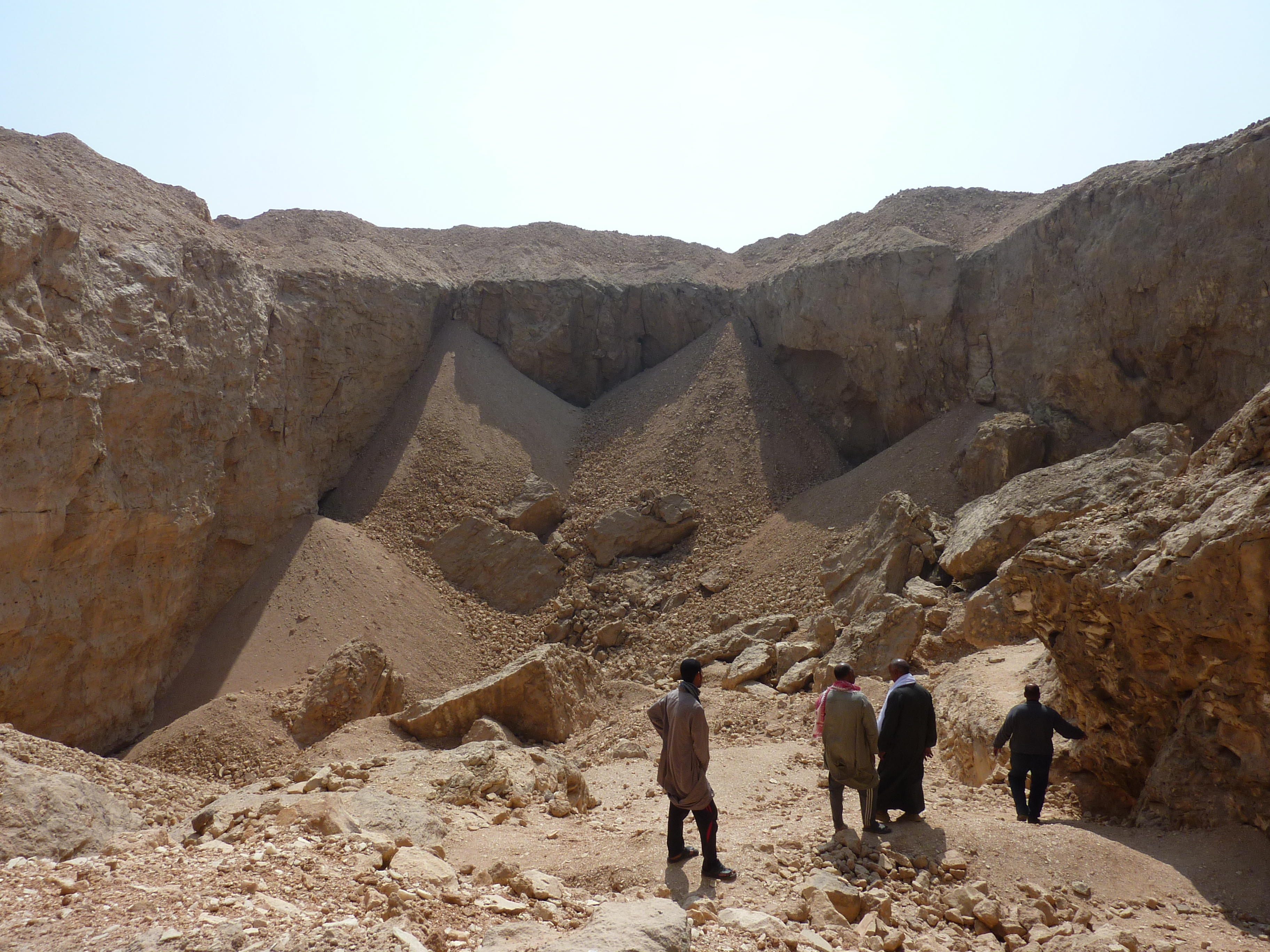 Inside the main quarry (Quarry P) at Hatnub. The quarry was originally roofed by rock, but the roof collapsed in antiquity.